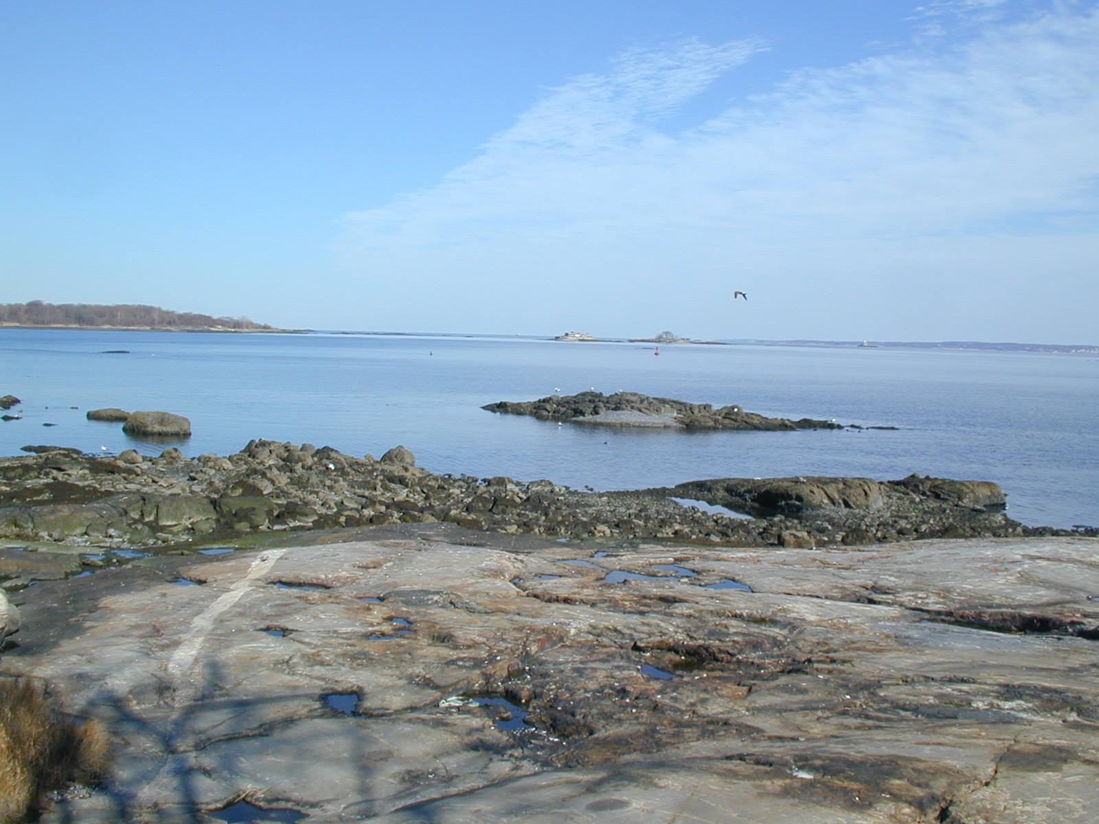 Pelham Bay Park, The Bronx, New York City More Bogdan Migulski Photography.